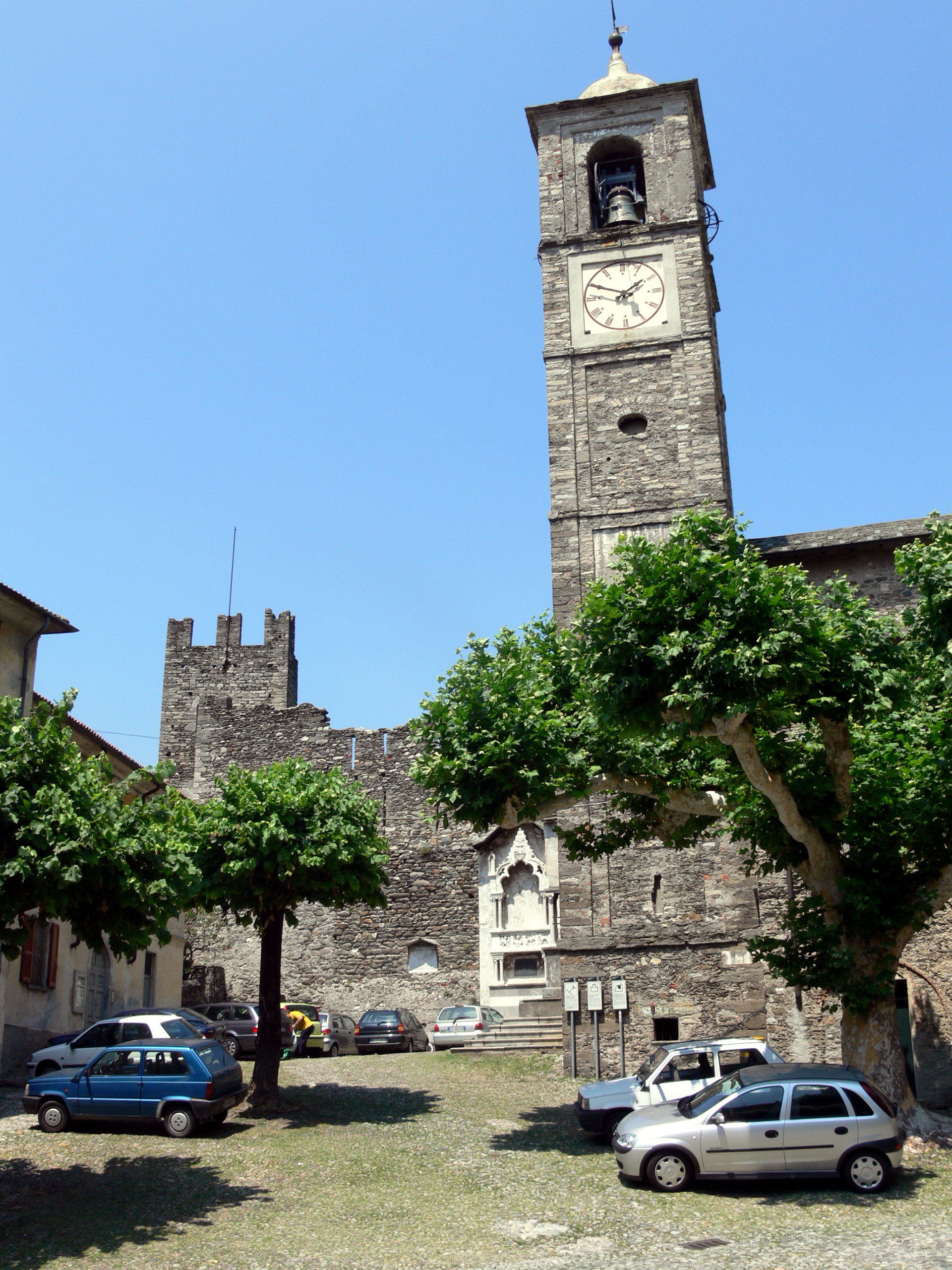 Corenno Plinio. Castle of the counts Andreani ( 14th century ) and Saint Thomas of Canterbury church.